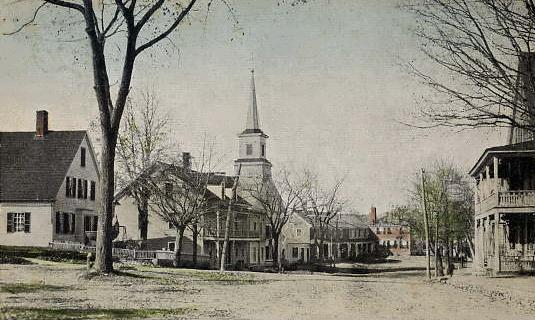 East Main Street, Greenville, New Hampshire